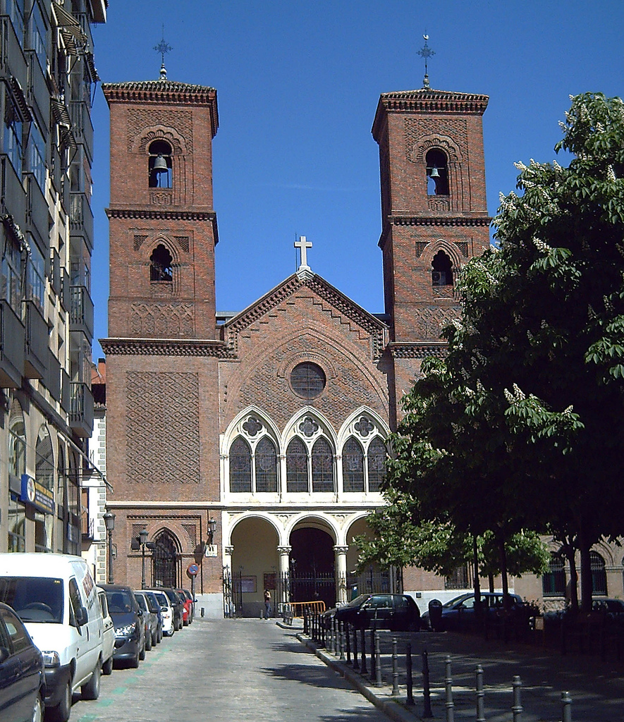 Iglesia parroquial Virgen de la Paloma y San Pedro el Real. Neo-Mudéjar church in Madrid (Spain). Projected by architect Lorenzo Álvarez Capra and built between 1896 and 1912. Restoration and first alteration in 1978 by Antonio Ábalos Culebras.